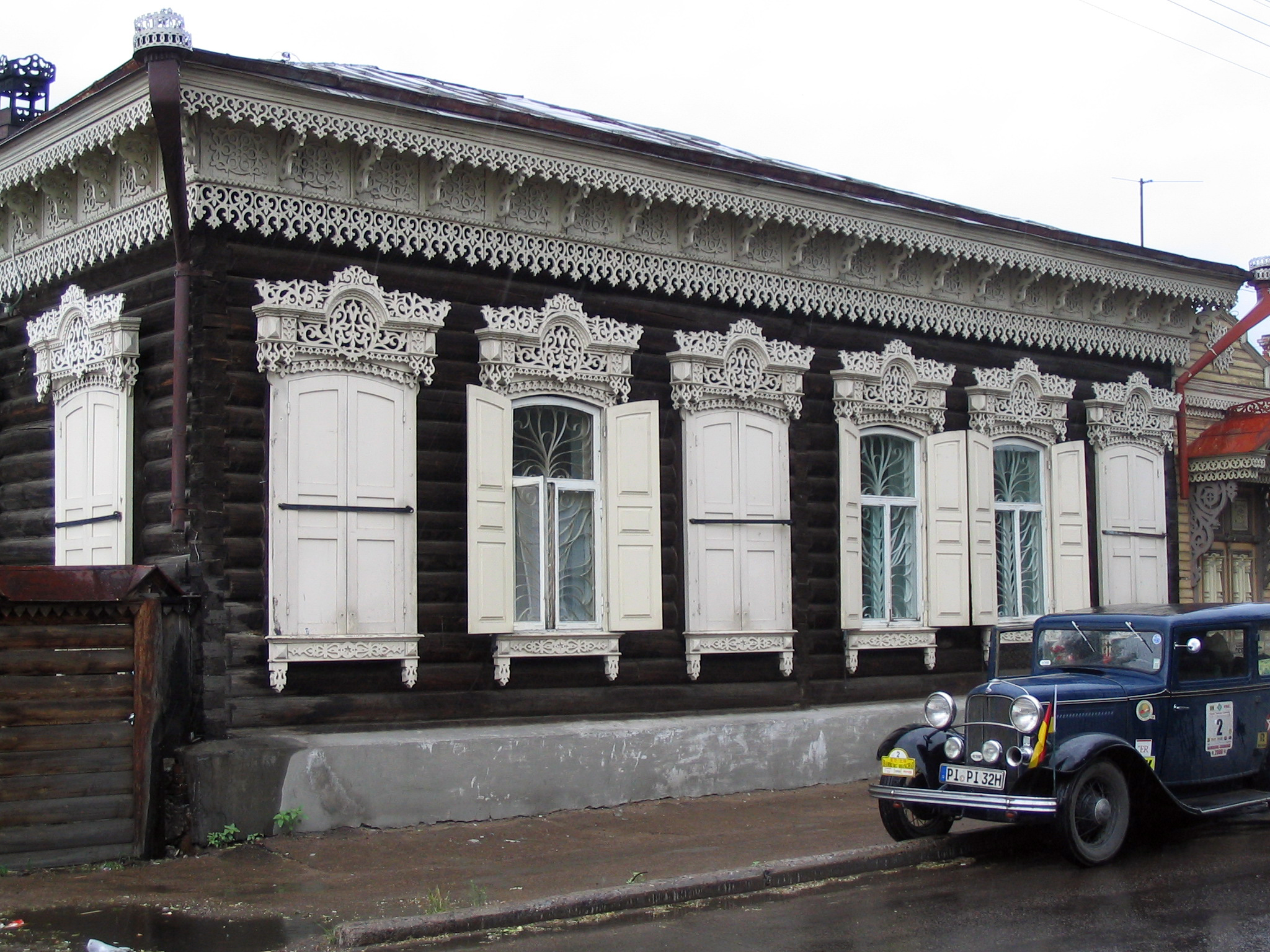 Wooden house along river in Ulan Ude, Russia. Taken by me 7/06, released into public domain.